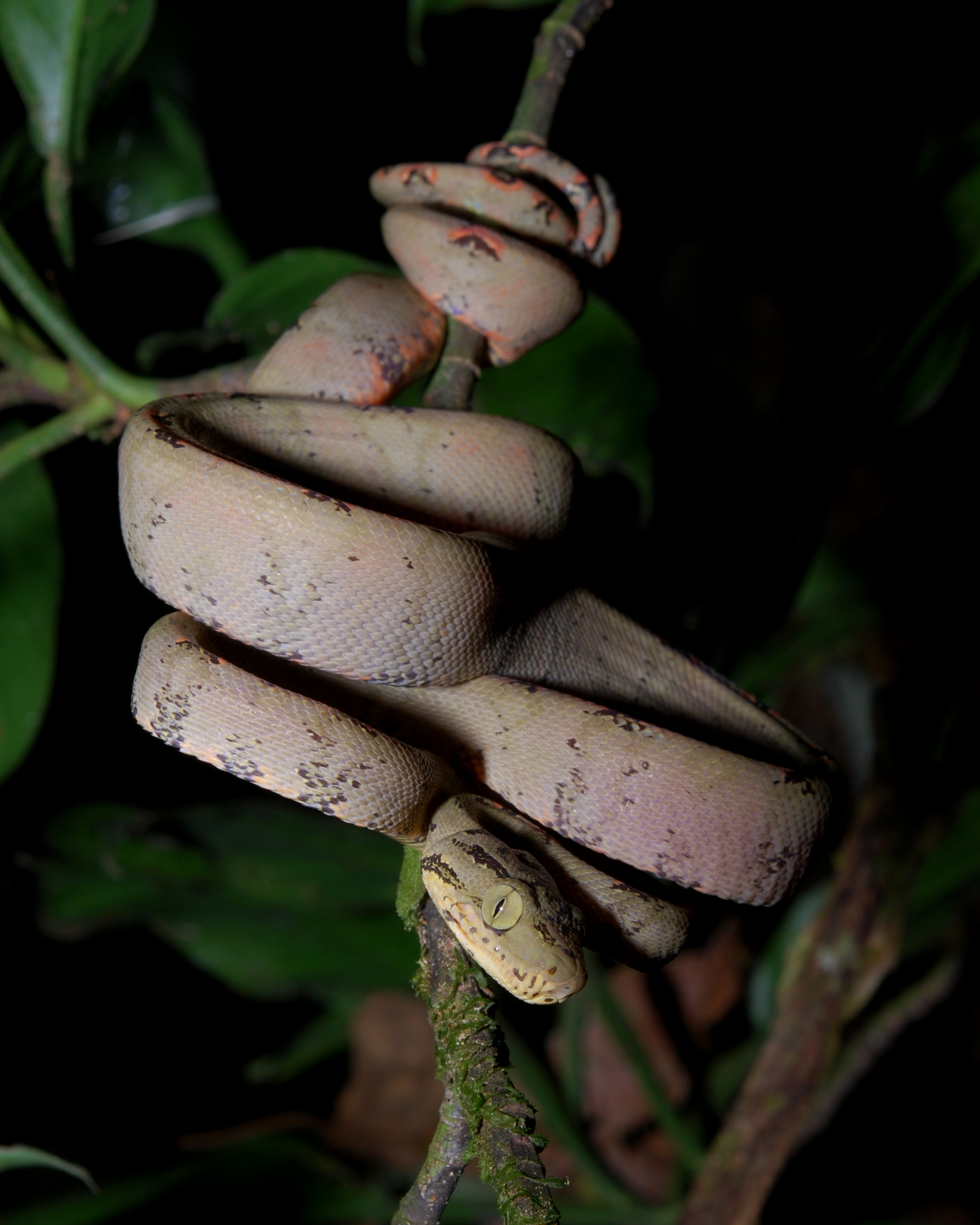 A juvenile Corallus hortulanus in Yasuní National Park, Ecuador.